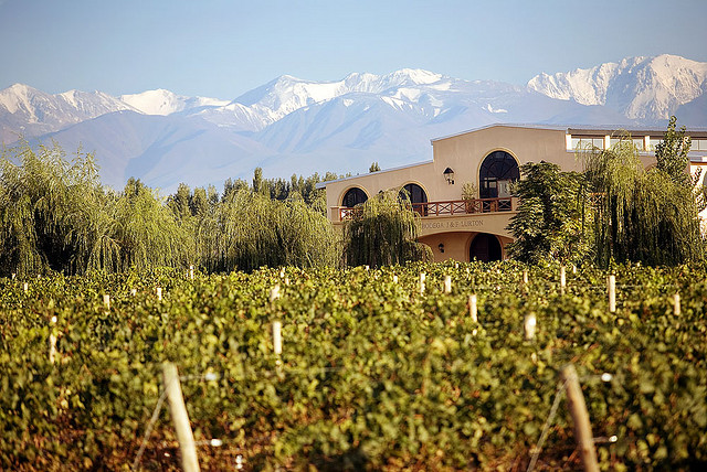 Bodega J & F Lurton winery and vineyard